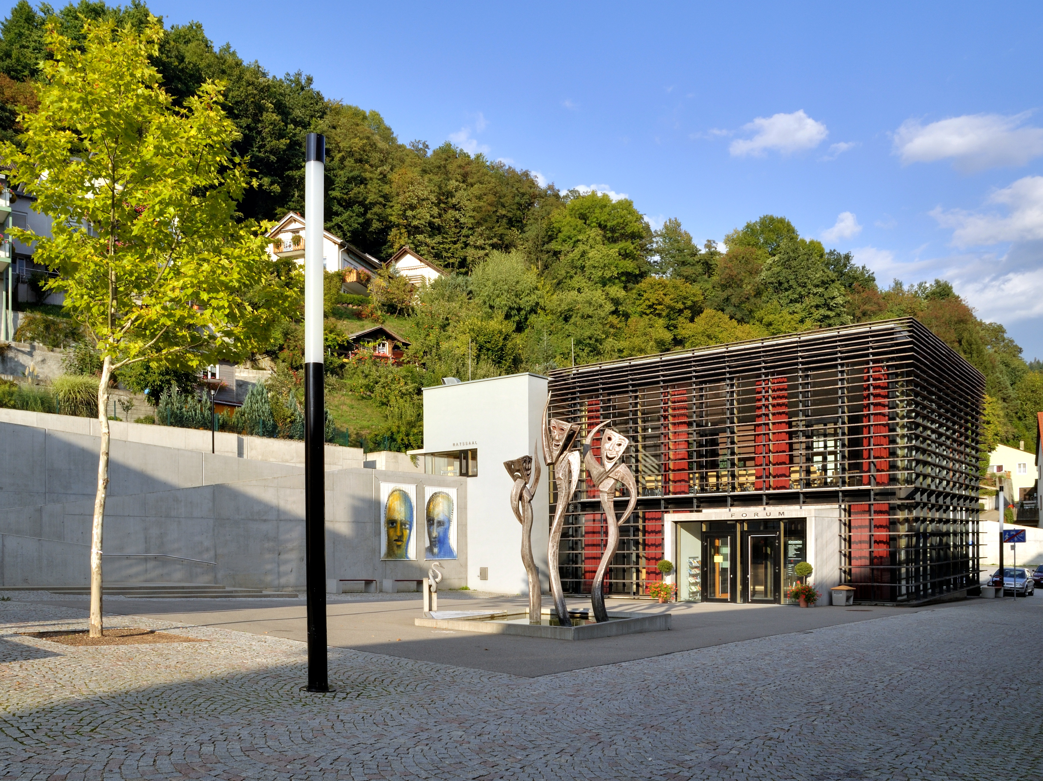 Zell im Wiesental: Registry office